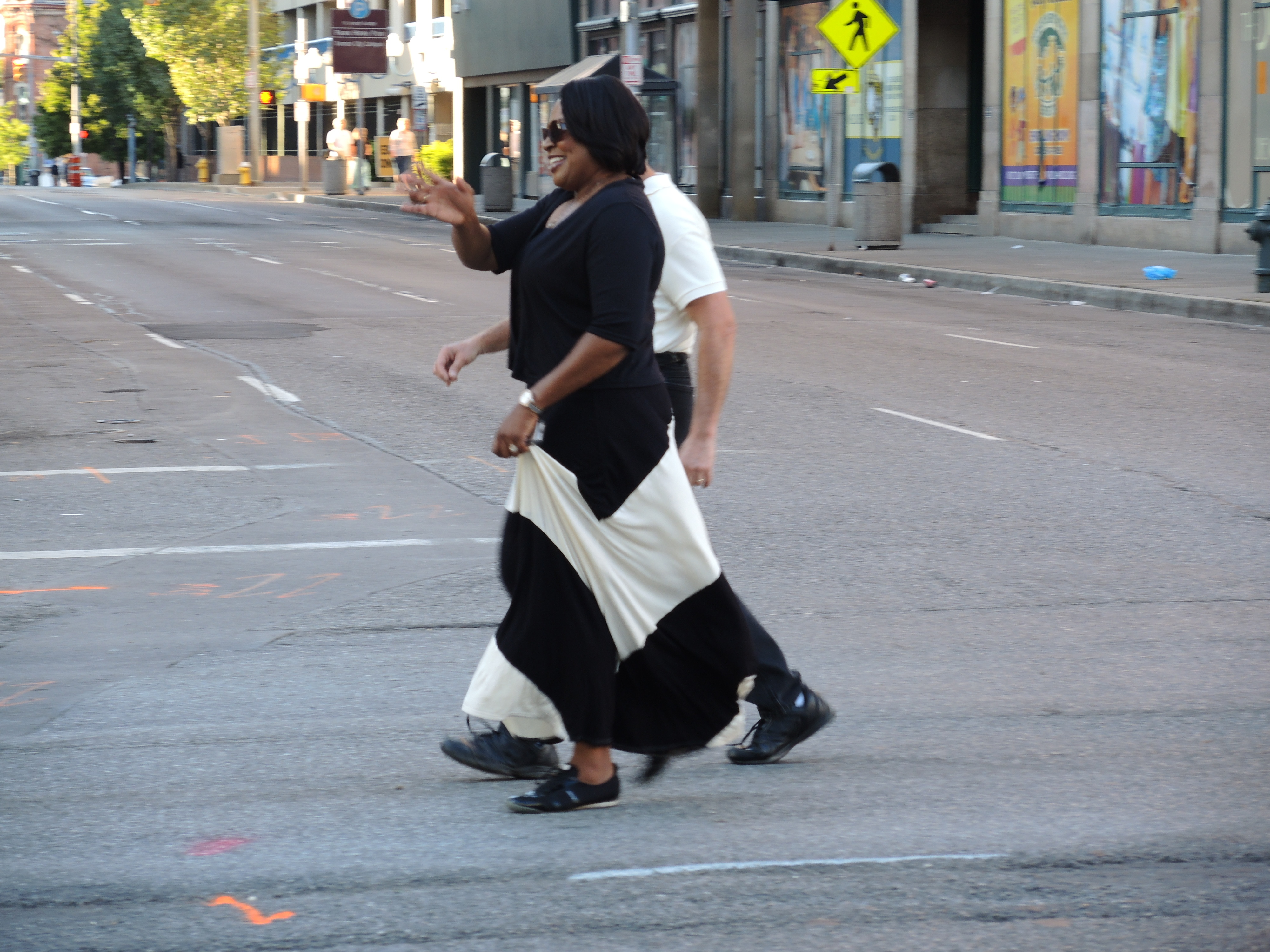 Lovely A. Warren in the 2014 Labor Day parade in Rochester, New York